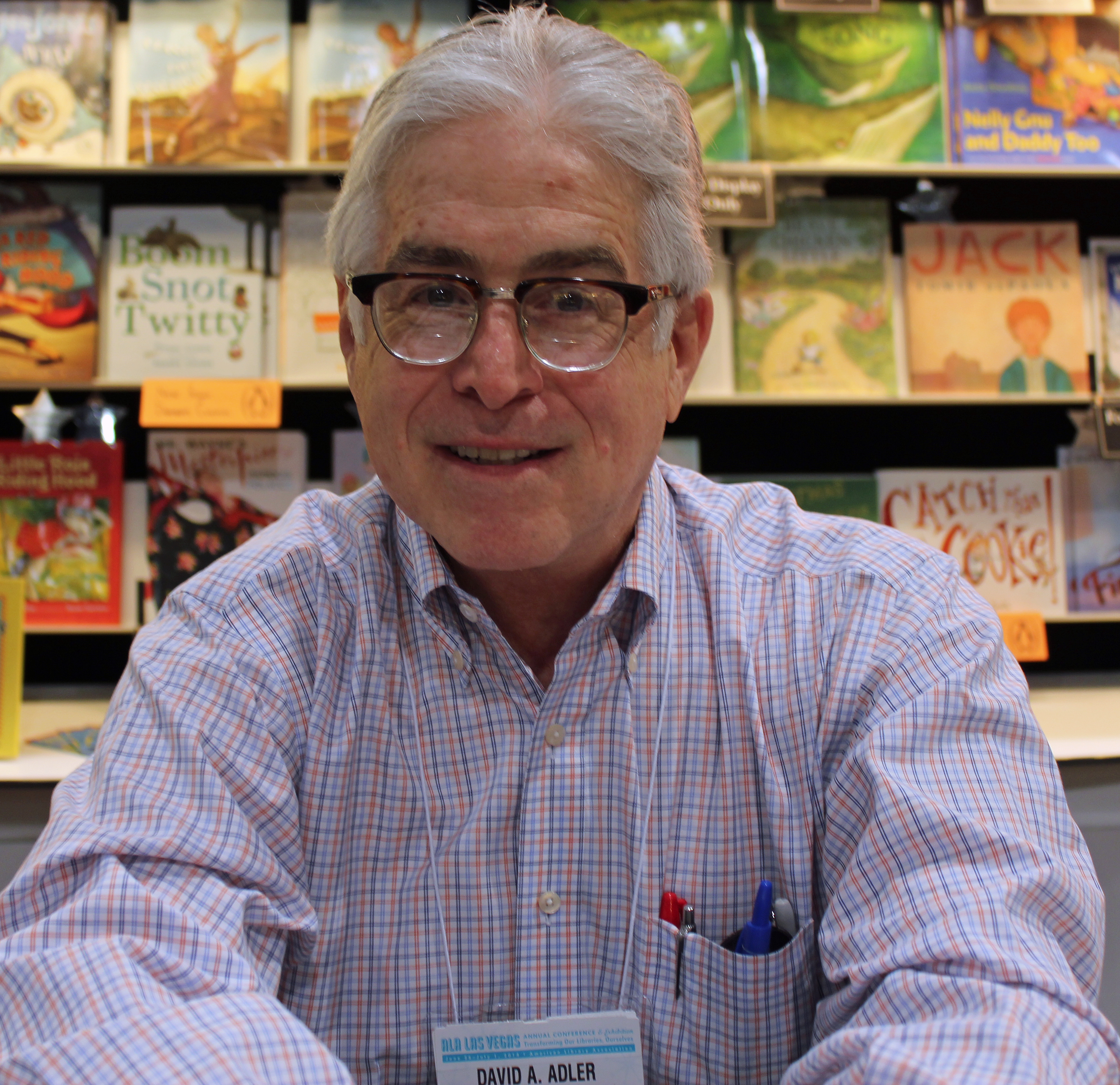 David A. Adler, an author of books for children and teenagers.